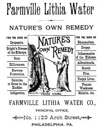 Farmville Lithia Springs Water Advertisement from Philadelphia